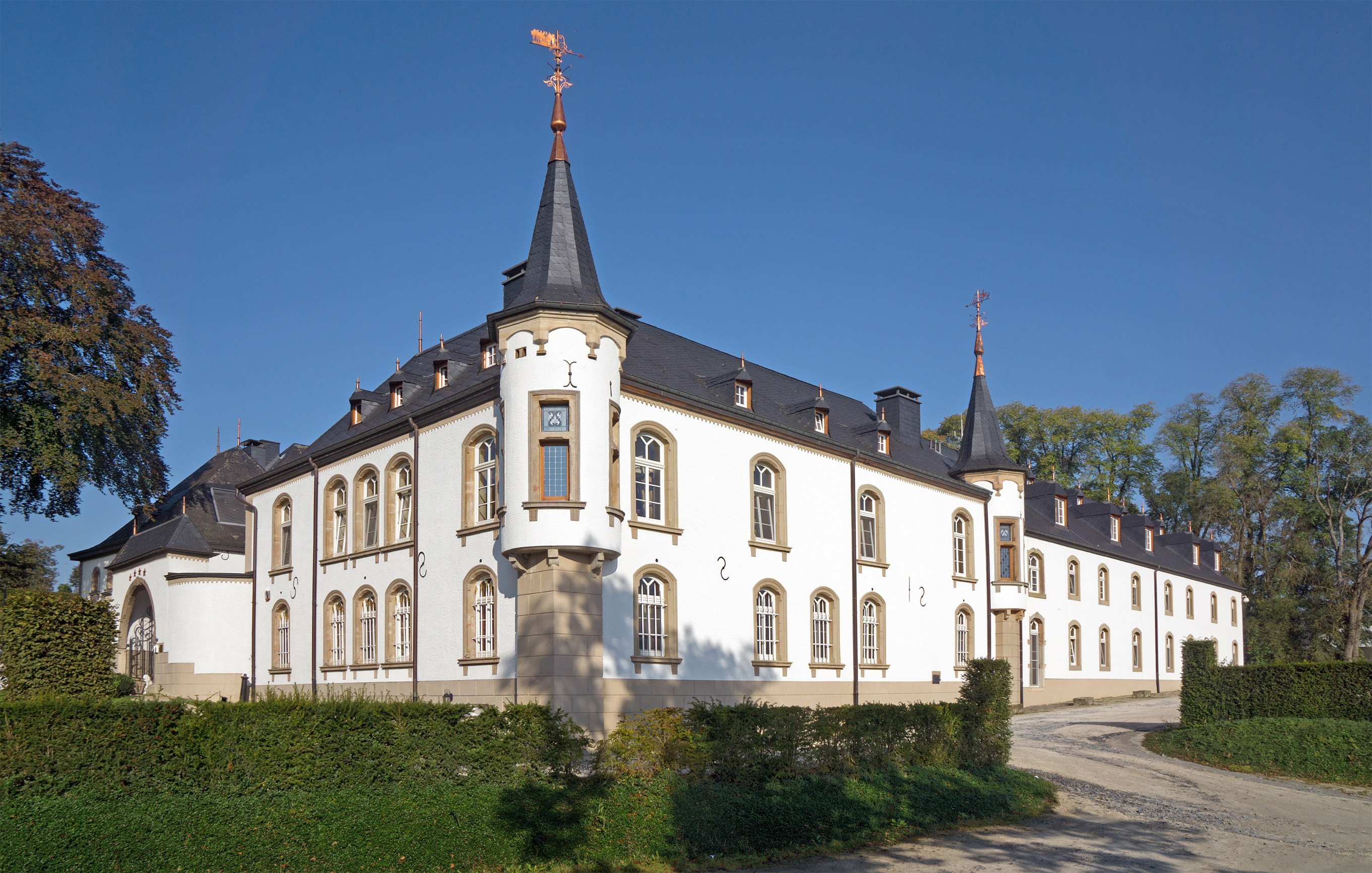 Castle in Urspelt